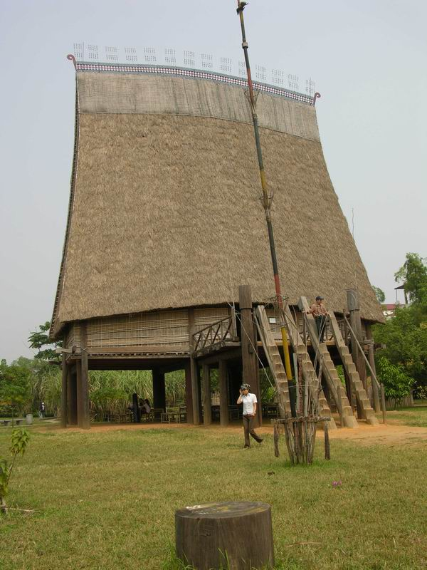 (WT-shared) Tina Huong 04:00, 24 May 2007 (EDT)Tina Huong.